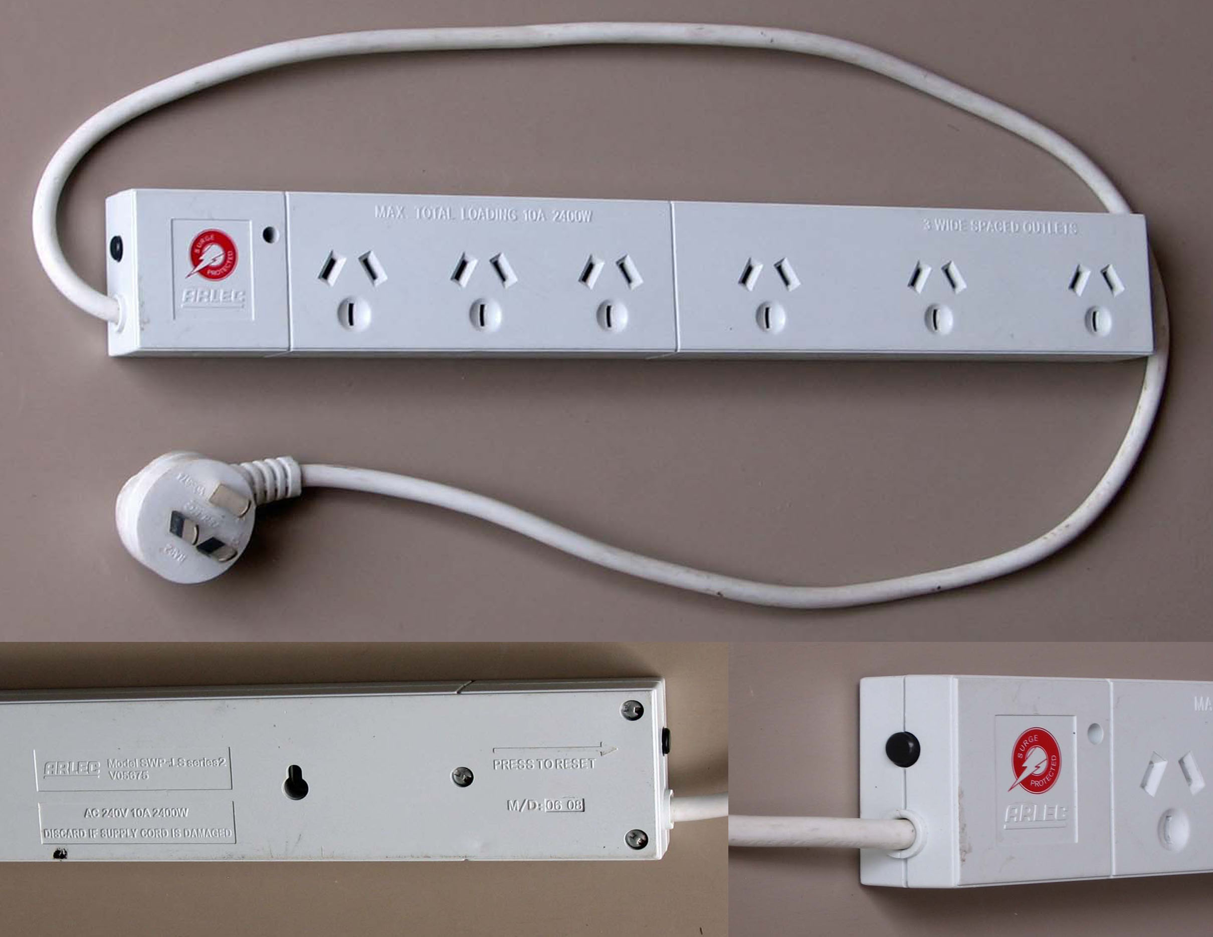 Australian 10 A, 6 Outlet Power Board, with resettable overload protection. Three of the outlets are provided with wider spacing to allow the use of larger plug-in power supplies.